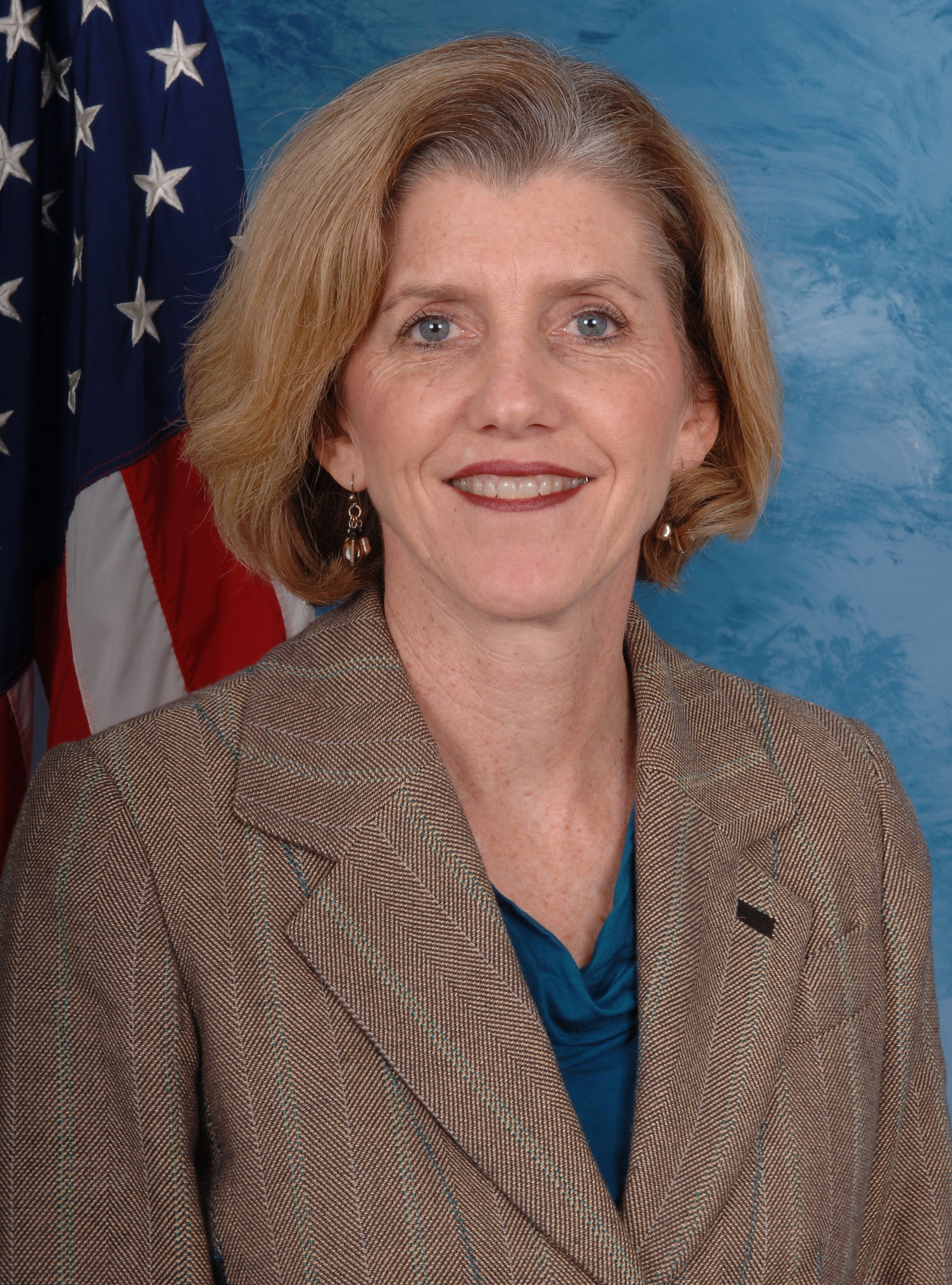 Official congressional photo of Kathy Dahlkemper